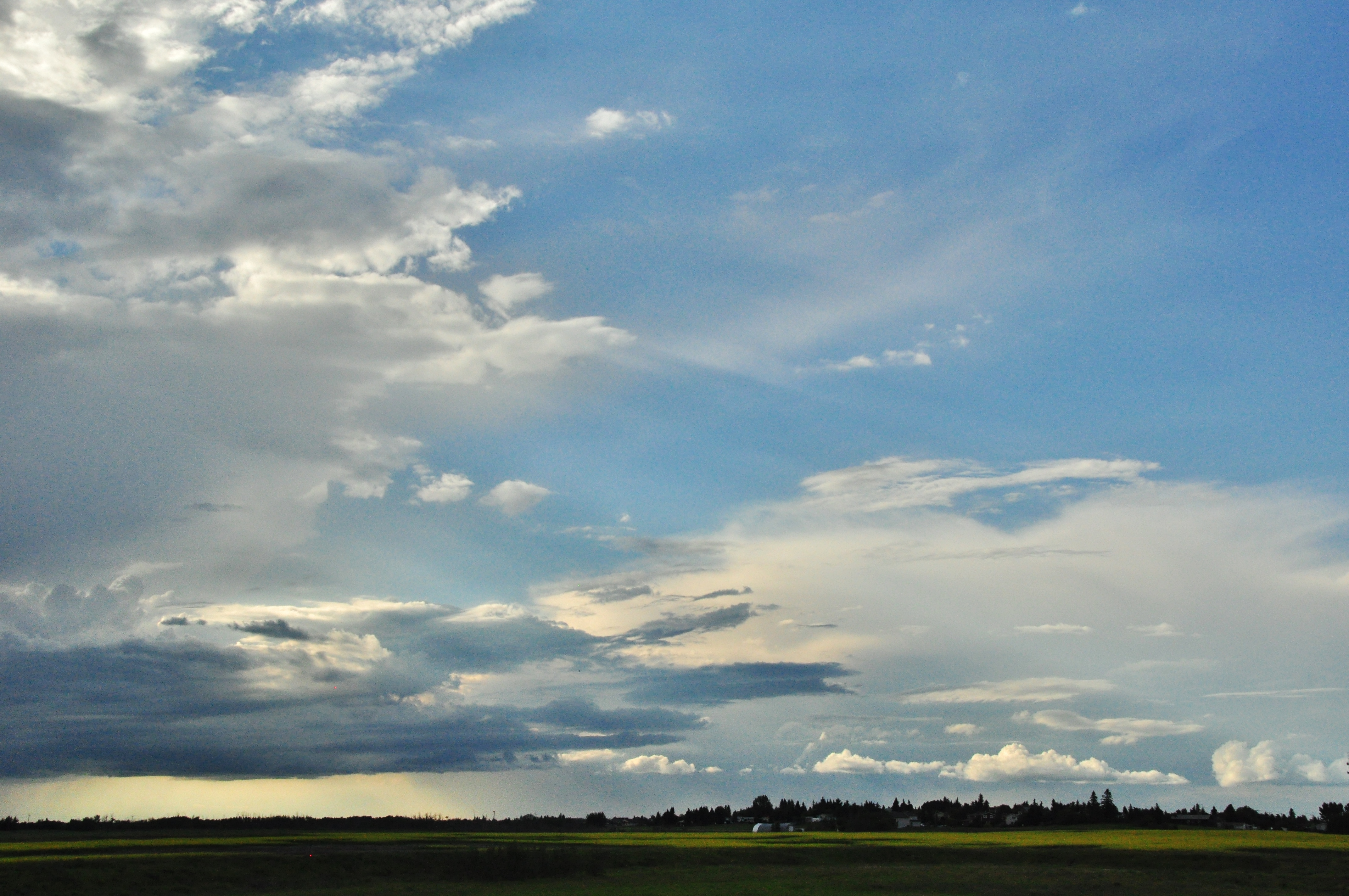 Stormy sky in the evening near the Mundare, Alberta